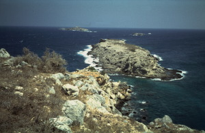 Cape Apostolos Andreas — in Northern Cyprus, on Cyprus.